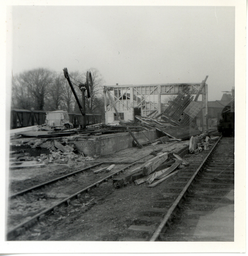 John Gordon